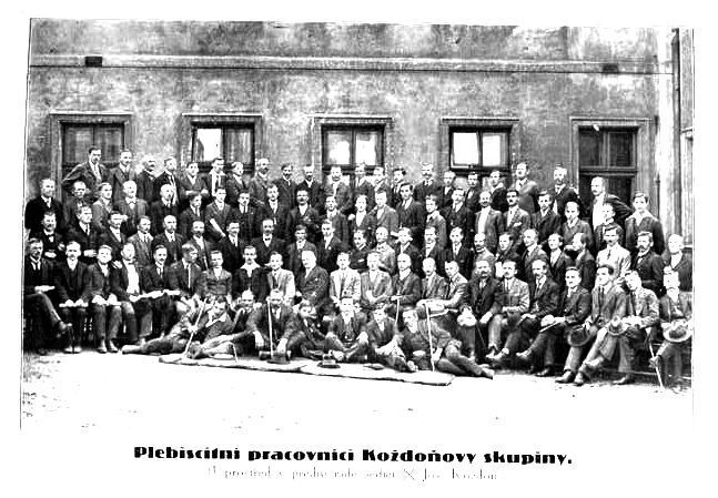 Plebiscite workers of the Silesian People's Party (Śląska Partia Ludowa, political party of Cieszyn Silesians lead by Józef Kożdoń who is marked X on the picture) during the dispute between Czechoslovakia and Poland over Cieszyn Silesia in 1918 - 1920.